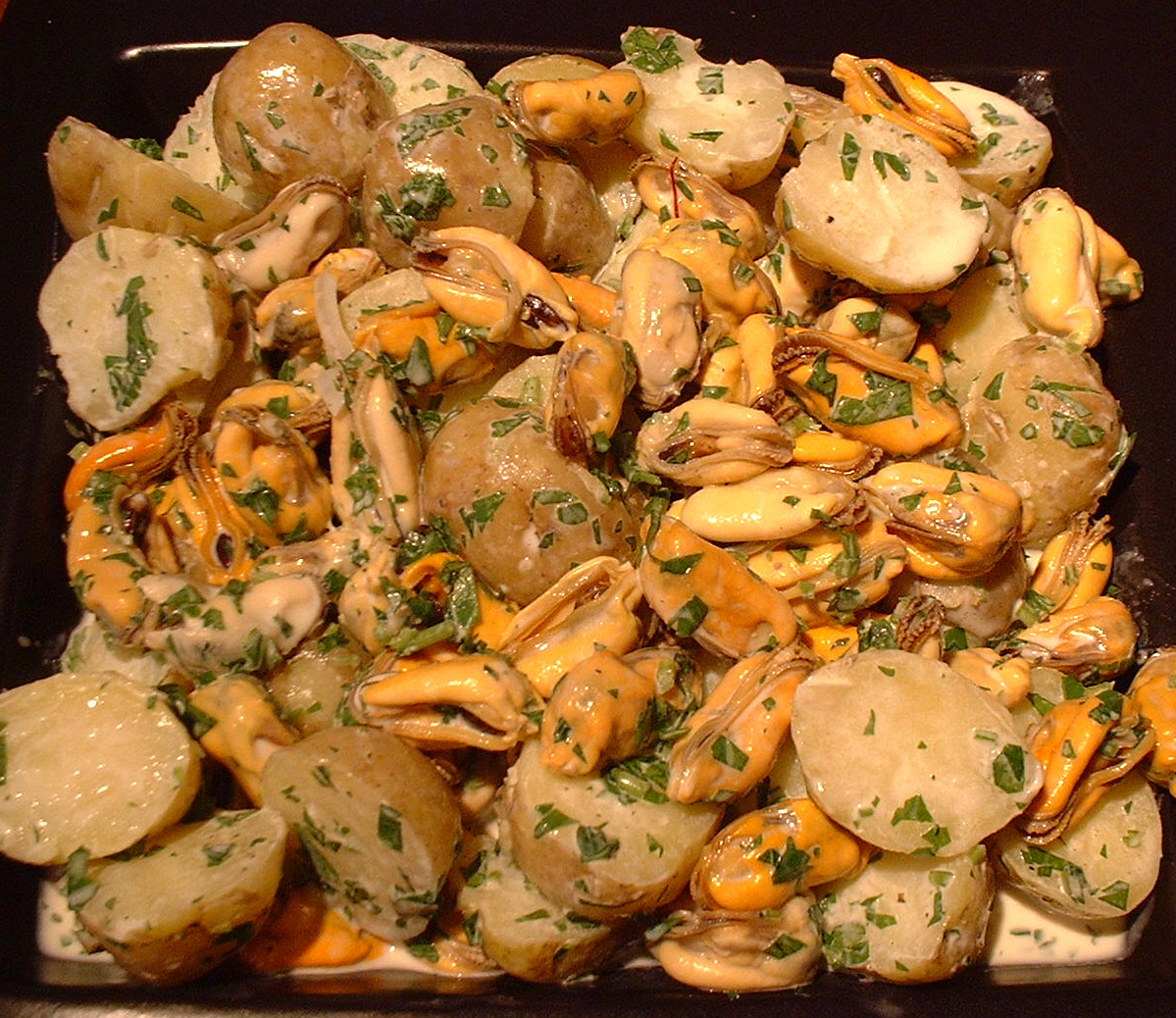 Musselsalade with saffrondressing